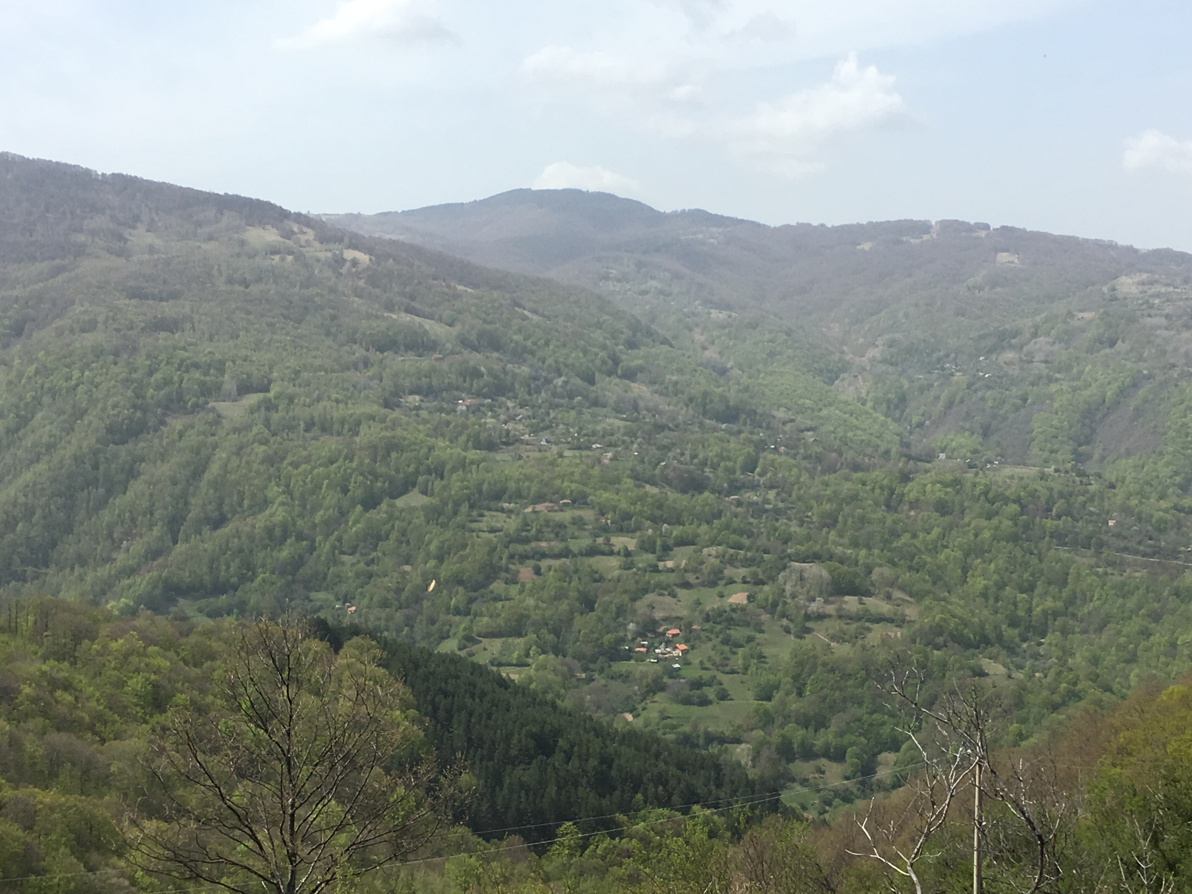 A view of the village of Duračka Reka